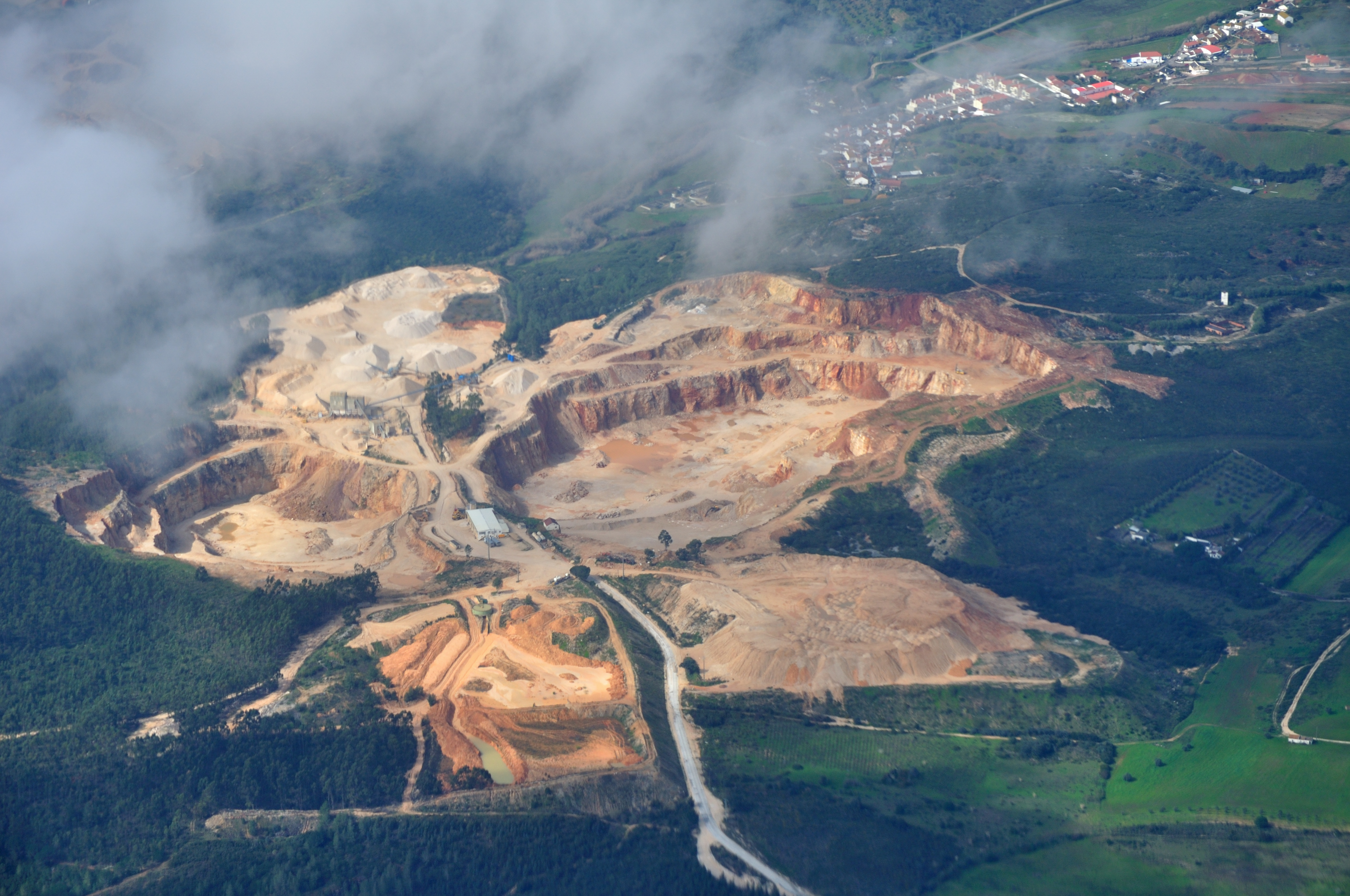 Portugal, Approach into Lisbon